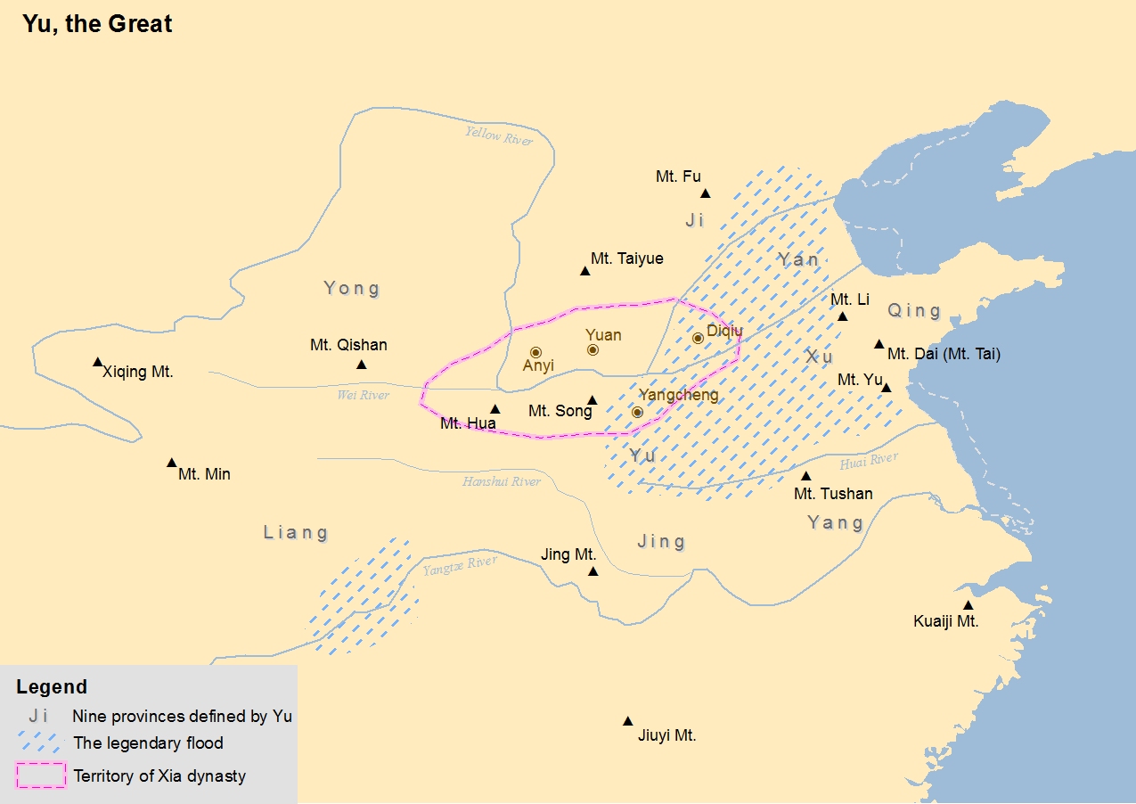 Map showing the Nine provinces defined by Yu, the Great during the legendary flood. 中文（中国大陆）: 大禹治水以及禹贡九州示意图